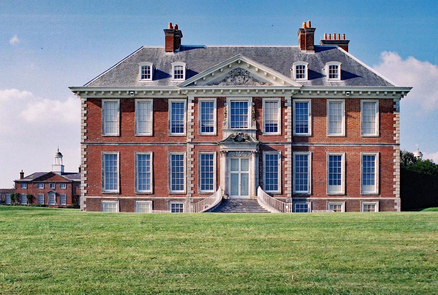 The South front of the house at Uppark. I have digitally erased my brother from the picture, which was taken by my father. --OrphanBot 13:24, 11 April 2006 (UTC)